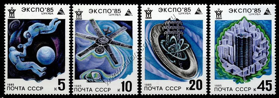 Stamp of USSR